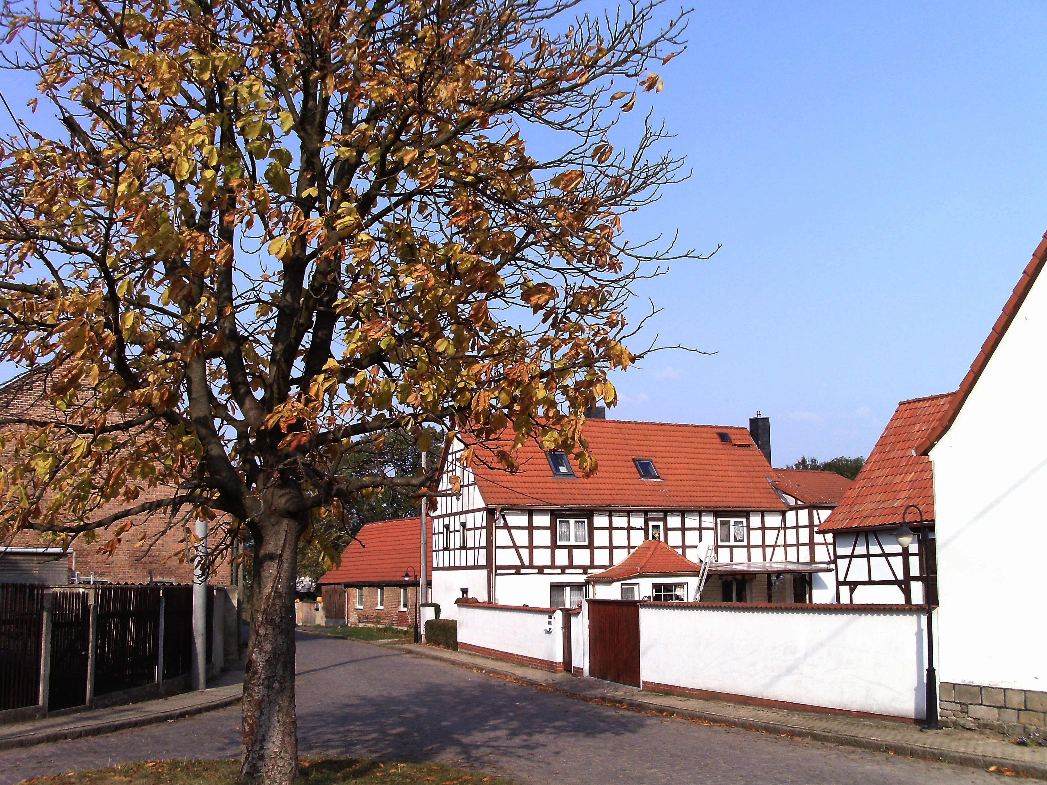 In the centre of the village of Kaja (Lützen, district of Burgenlandkreis, Saxony-Anhalt)